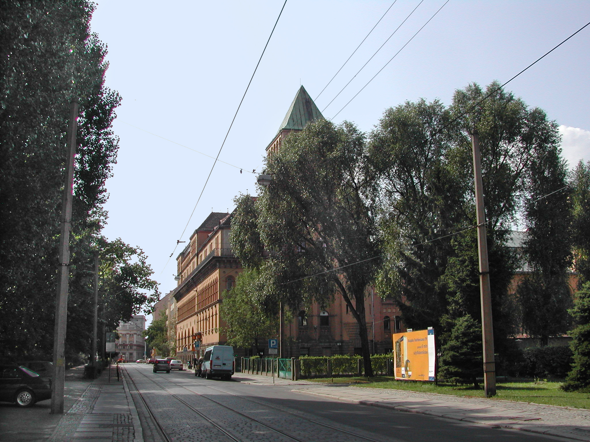 Former public bath in Wrocław, Poland (built 1895-97)